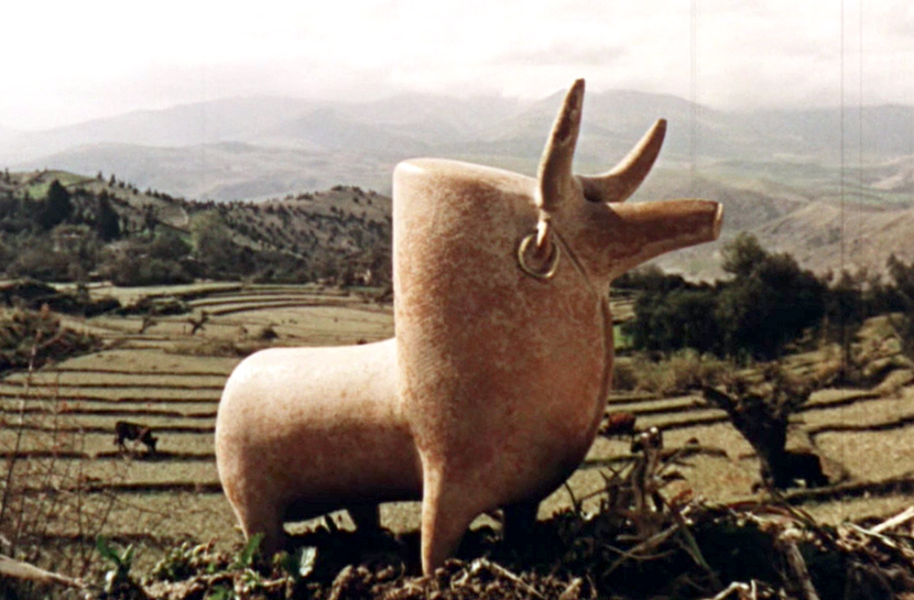 Vase in the shape of a hump-backed bull, the Marlik culture. Marlik, Gilan, Iran